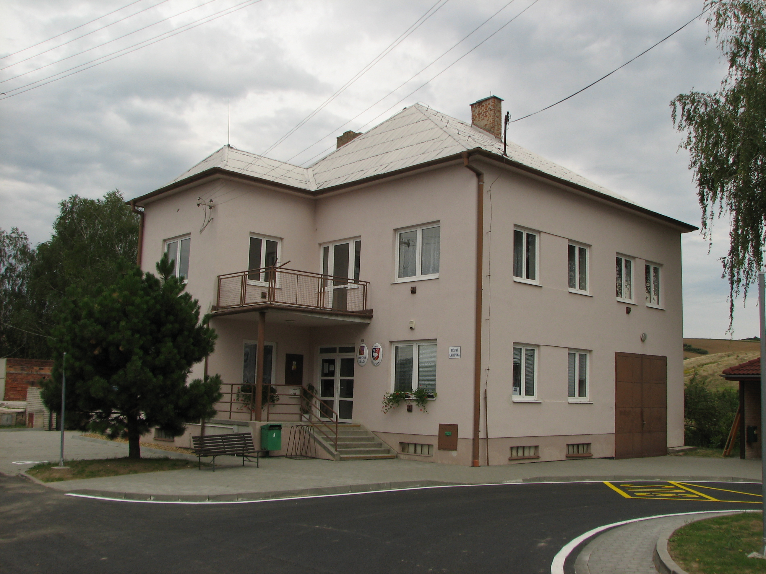 Dražůvky - municipal office